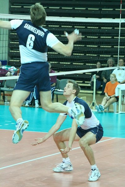 Finland volleyball national team middle-blocker Konstantin Shumov covers captain Tuomas Sammelvuo`s spike. Olympic Qualifations in Sombathely, Hungary.